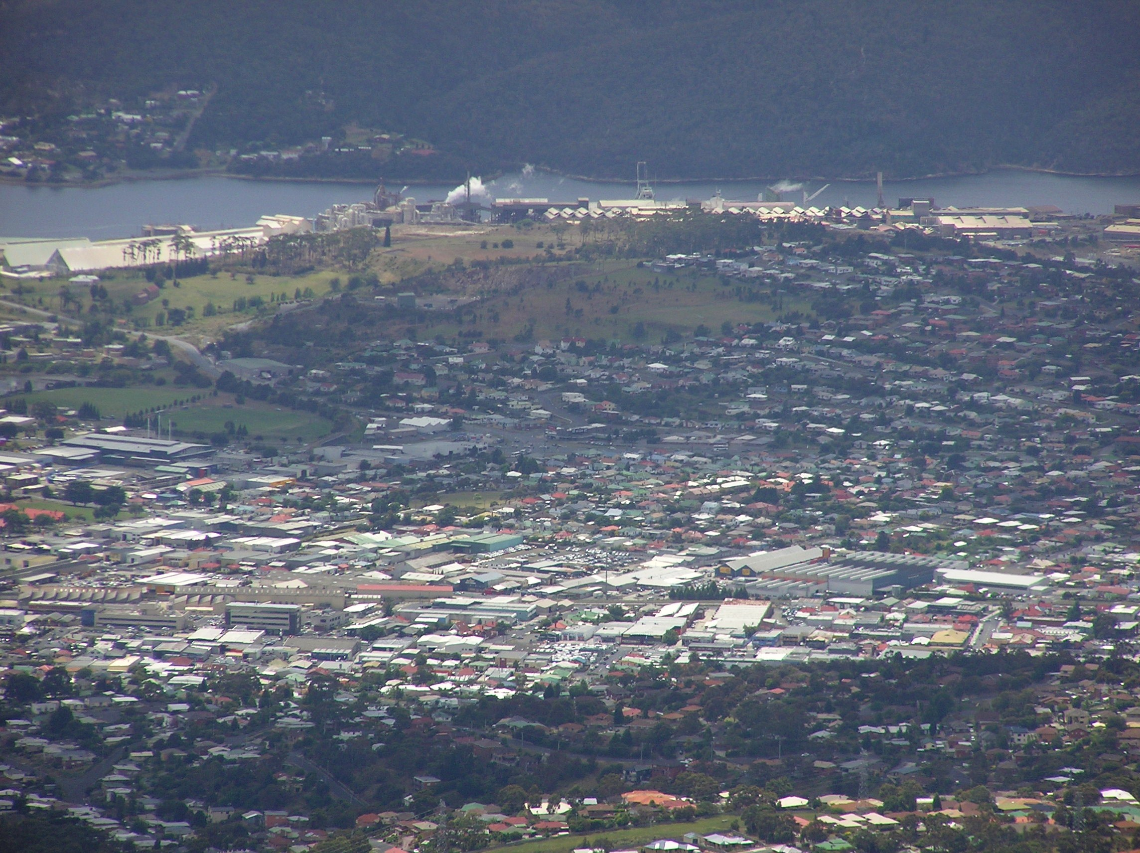 Moonah and Lutana suburbs of Hobart Tasmania viewd from Lost World near Mount Wellington